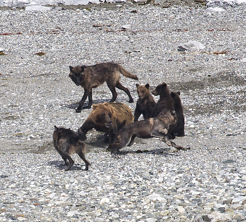 Admiralty Dream